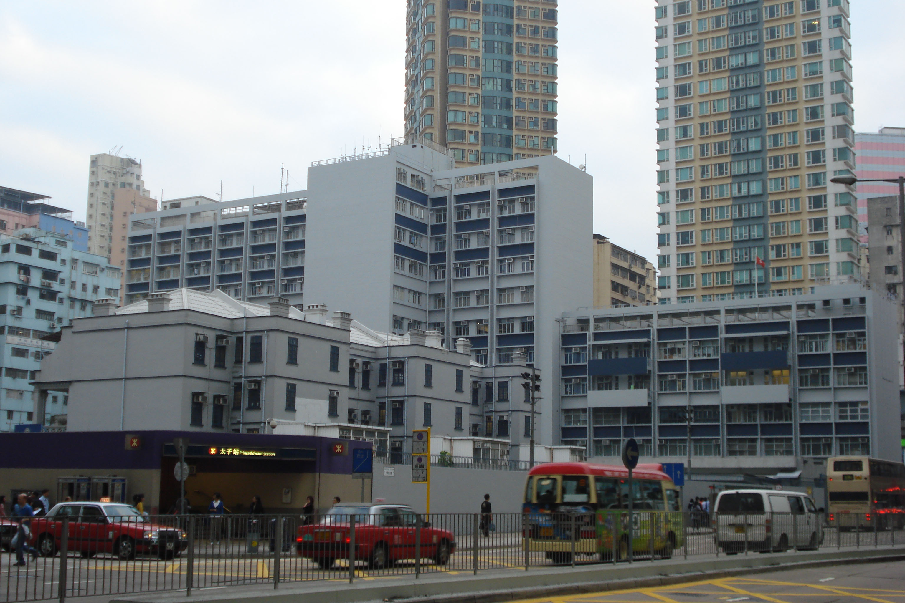 MOK Police Station